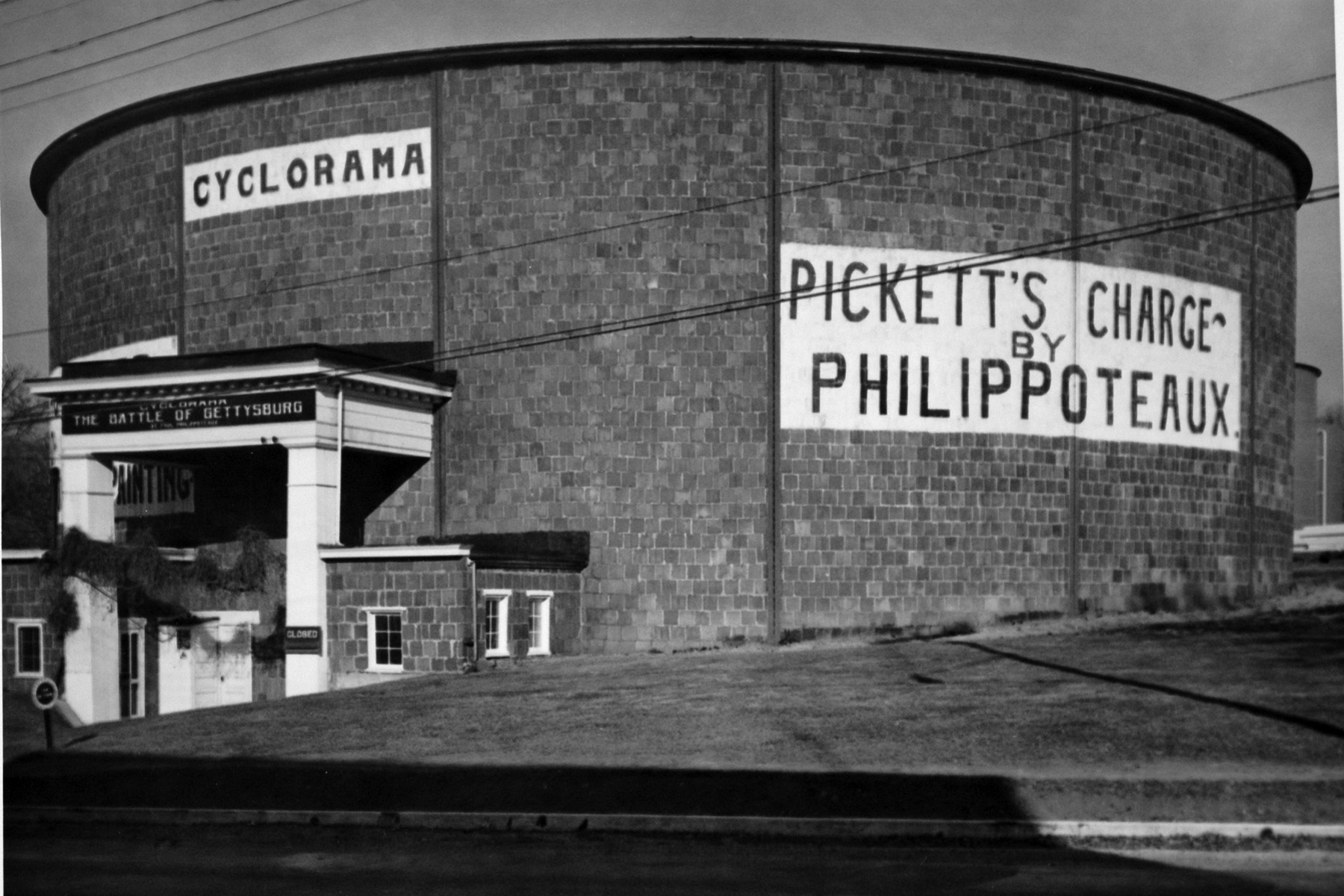 Original Gettysburg Cyclorama Building